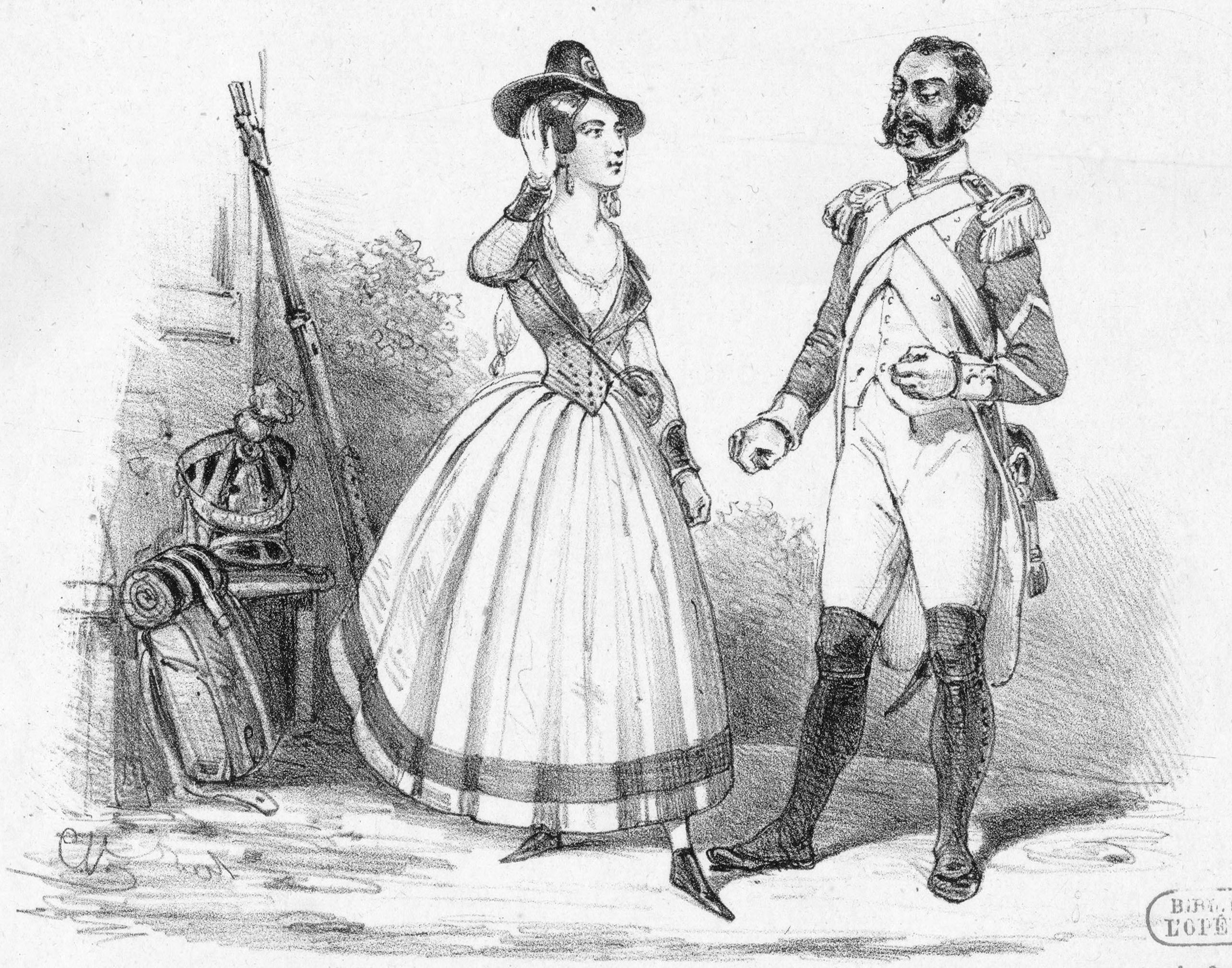 Juliette Borghèse as Marie and François-Louis Henry as Sergeant Sulpice in Donizetti's comic opera La fille du régiment, as first performed on 11 February 1840 by the Opéra-Comique at the Salle de la Bourse in Paris. Published in Chronique des Théâtres.